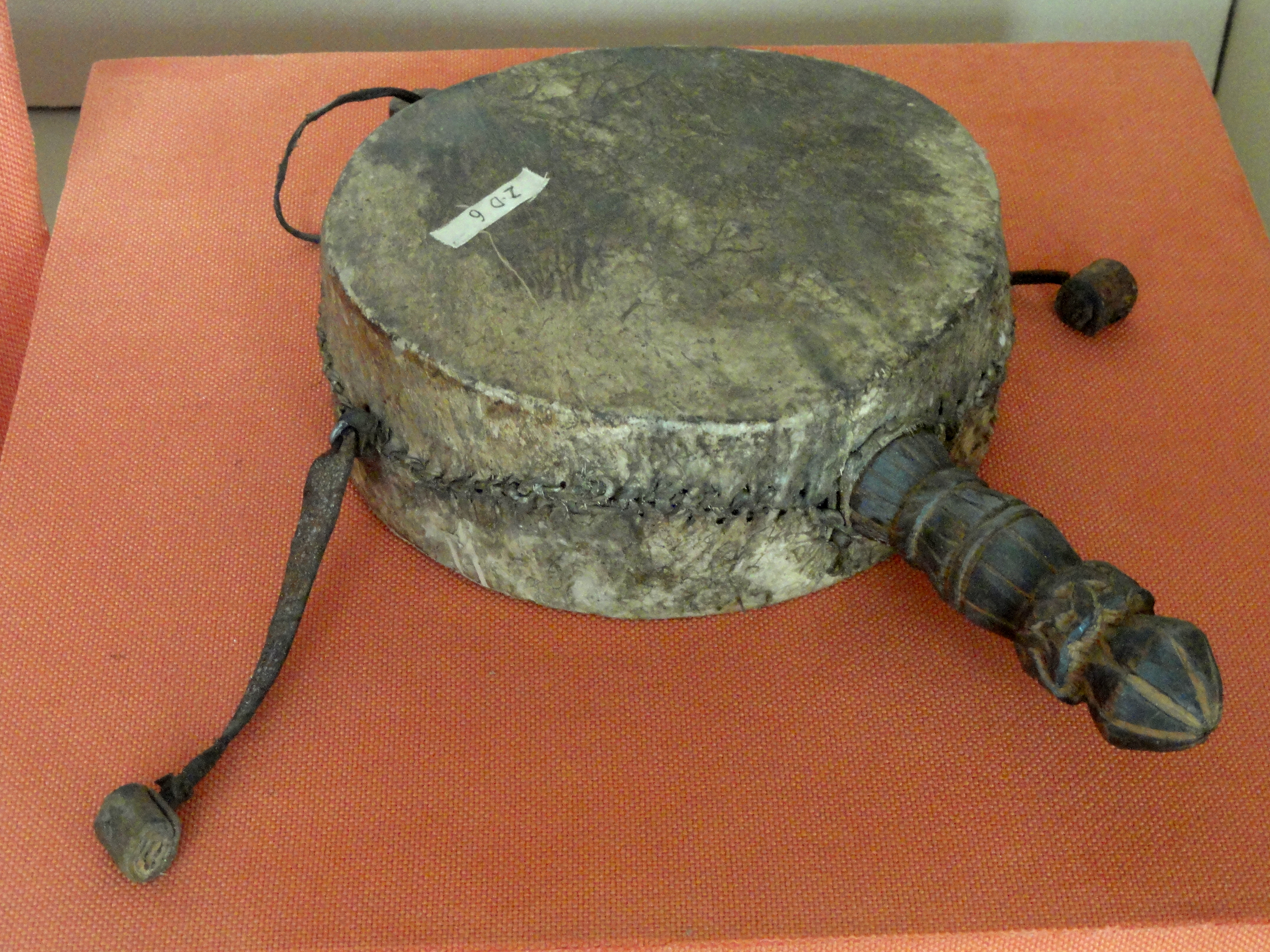 Naxi "reba" drum. Musical instruments in the Yunnan Nationalities Museum, Kunming, Yunnan, China.